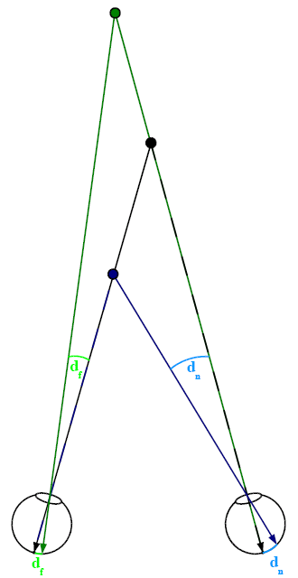 Definition of binocular disparity (far and near). The full black circle is the point of fixation. The blue object lies nearer to the observer. Therefore it has a "near" disparity dn. Objects lying more far away (green) correspondingly have a "far" disparity df. Binocular disparity is the angle between two lines of projection in one eye. One of which is the real projection from the object to the actual point of projection. The other one is the imaginary projection running through the focal point of the lens of the one eye to the point corresponding to the actual point of projection in the other eye. For simplicity reasons here both objects lie on the line of fixation for one eye such that the imaginary projection ends directly on the fovea of the other eye, but in general the fovea acts at most as a reference. Note that far disparities are smaller than near disparities for objects having the same distance from the fixation point.